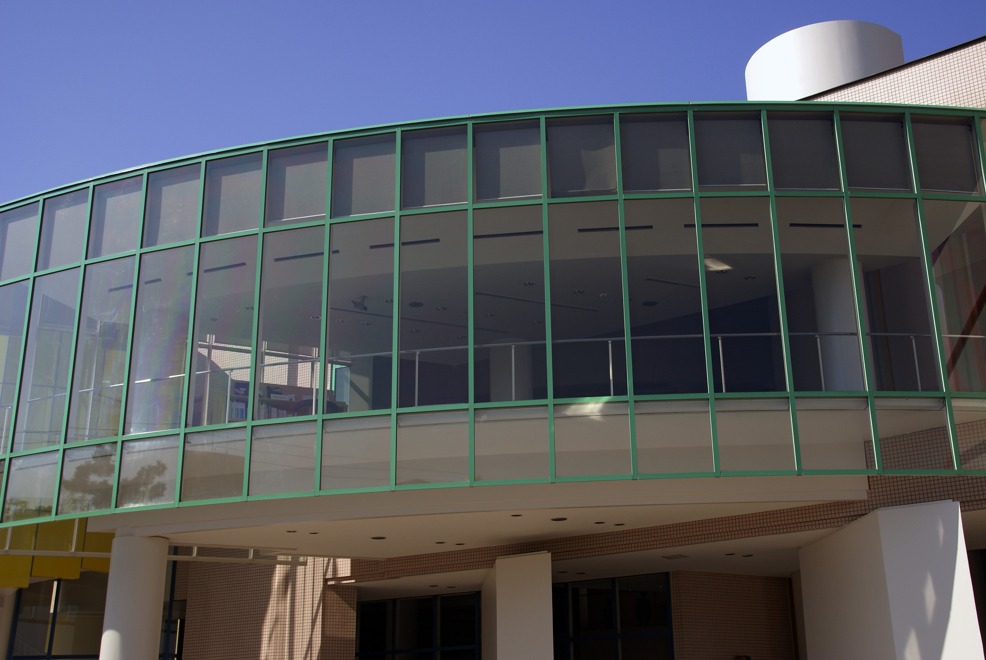 Ashiya City Museum of Art & History in Ashiya, Hyogo prefecture, Japan